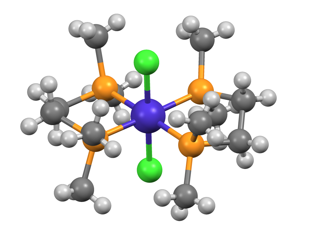 structure of Trans-CoCl2(dmpe)2